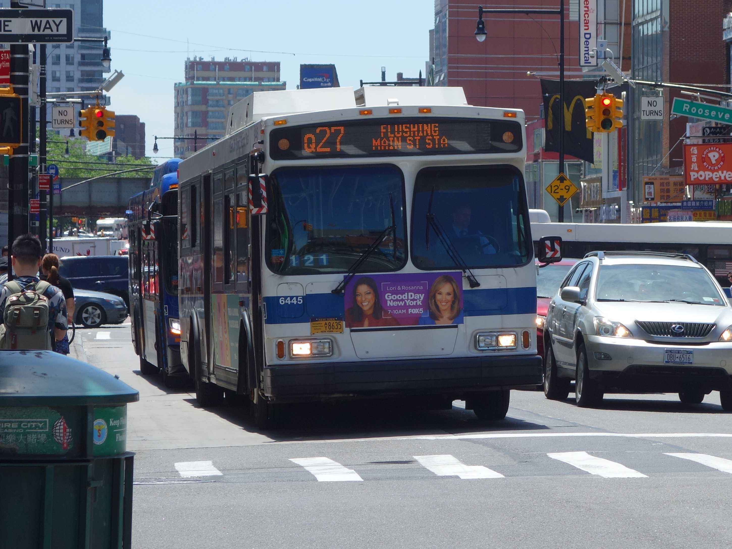 A Flushing–Main Street-bound Q27 bus turning east from Main Street onto 39th Avenue in Downtown Flushing, Queens.